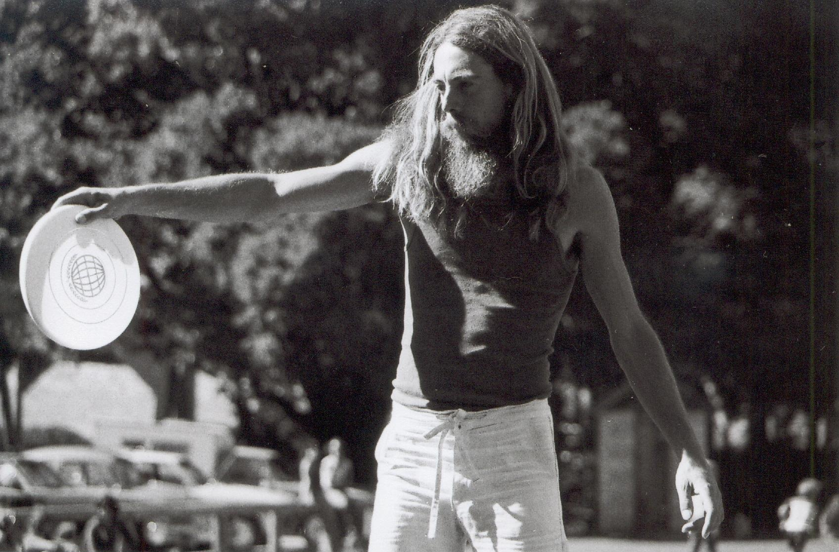 Ken Westerfield holding a World Class Model Frisbee in Delaveaga Park Santa Cruz California.